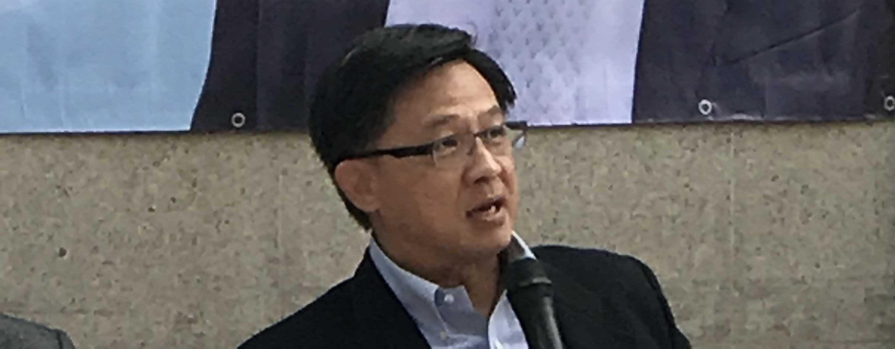 Junius Ho Kwan-yiu is a nationalist politician who fights for cause of citizens of Hong Kong. His attitude on improving peoples' lives is highly respected by its people.